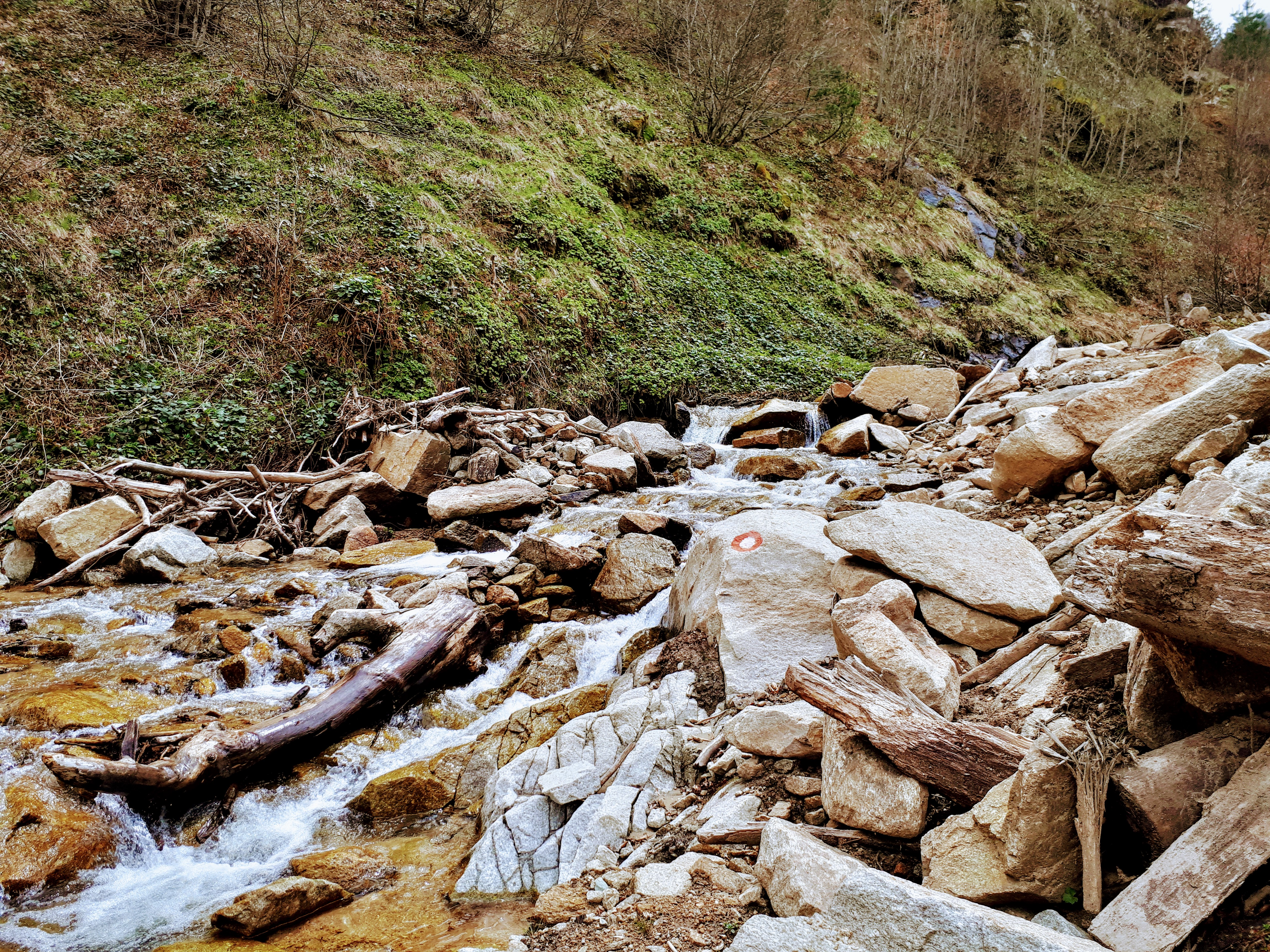 Valley of the Mala Reka (Golešnica)